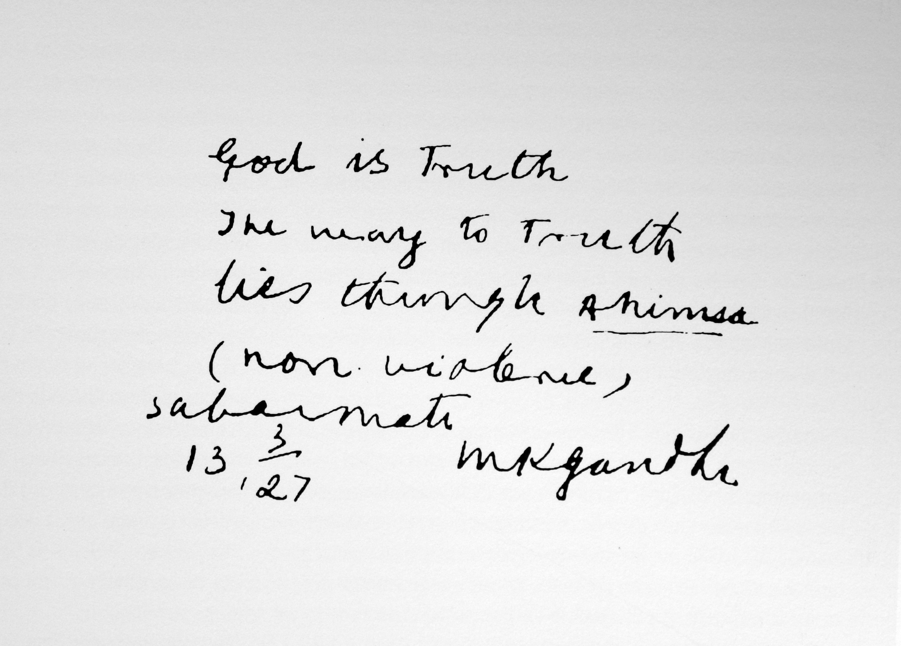 Gandhi's hand writing: "God is Truth. The way to Truth lies through Ahimsa (non-violence). Sabarmati, 13 March 1927, M. K. Gandhi."